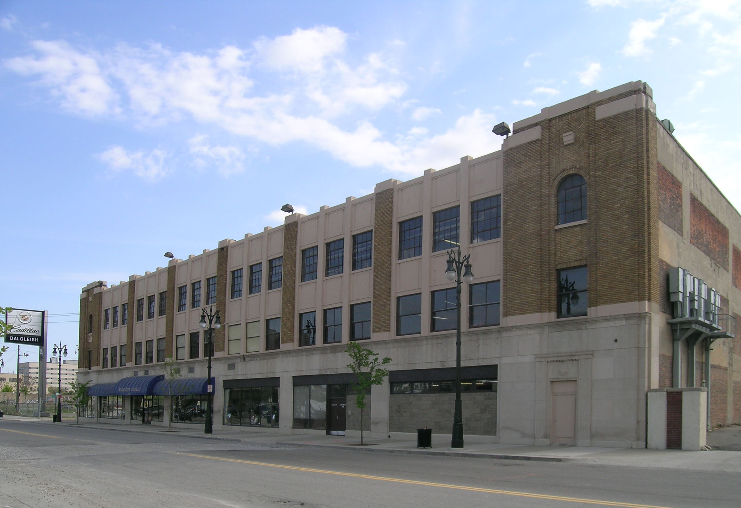 6160 Cass Avenue Detroit (Dagleish Cadillac)